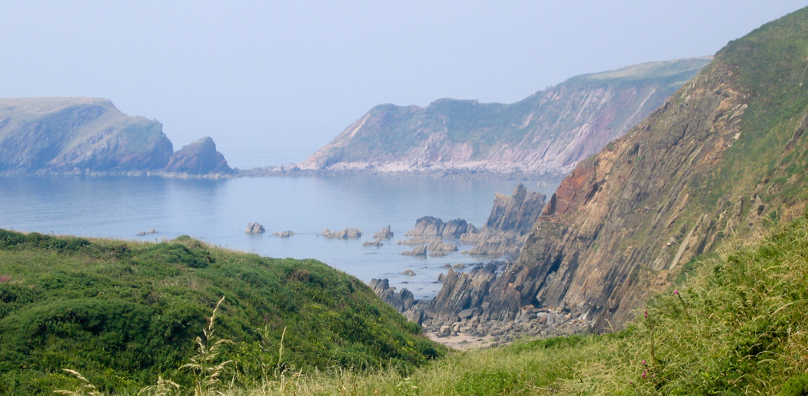 A beach in south-western Wales, in the vicinity of Dale.